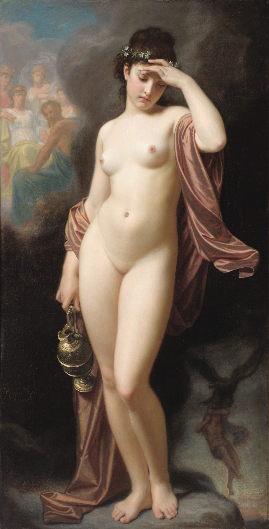 Hebe after the fall